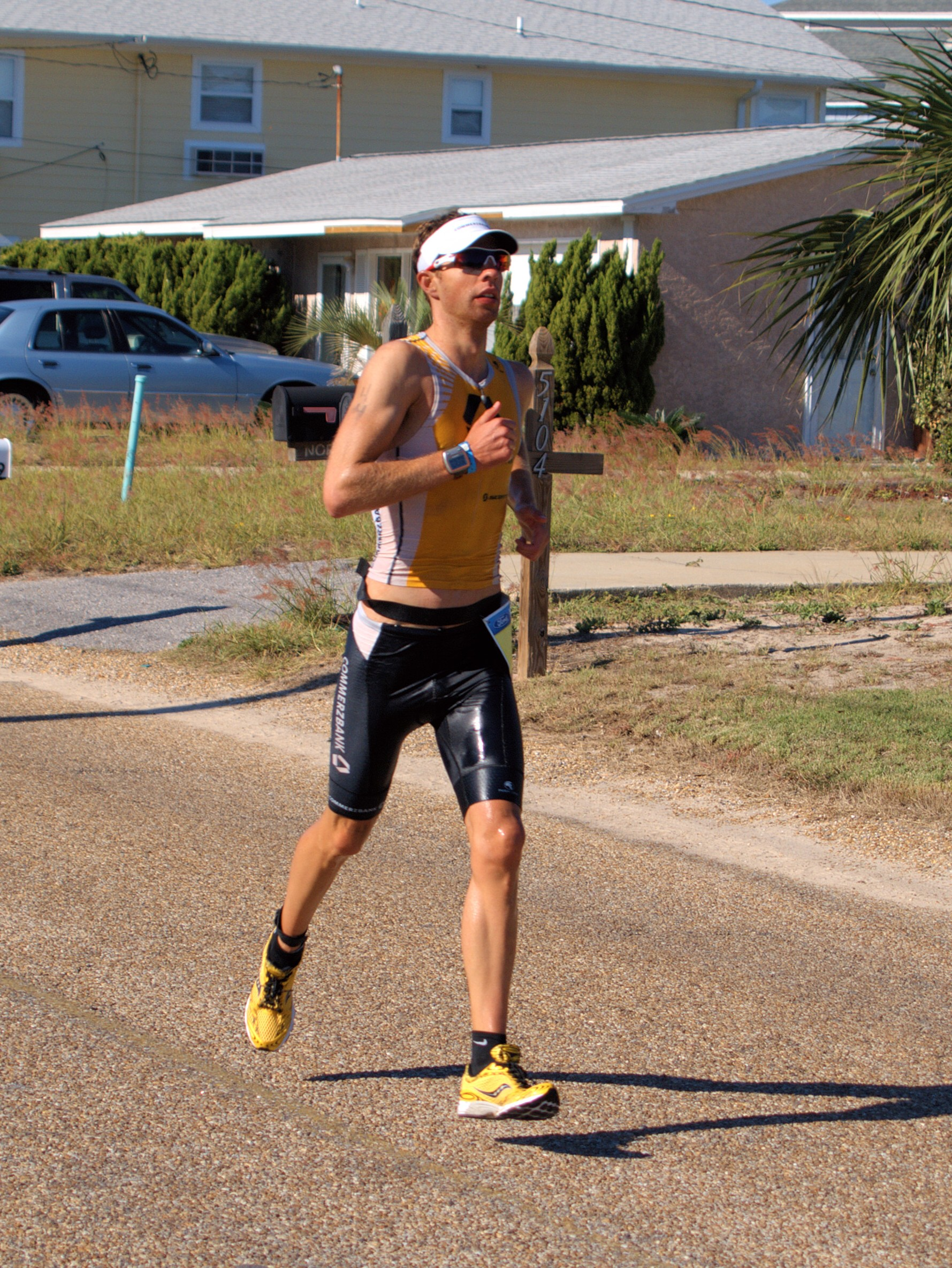 Markus Fachbach on the run at Ironman Florida 2010